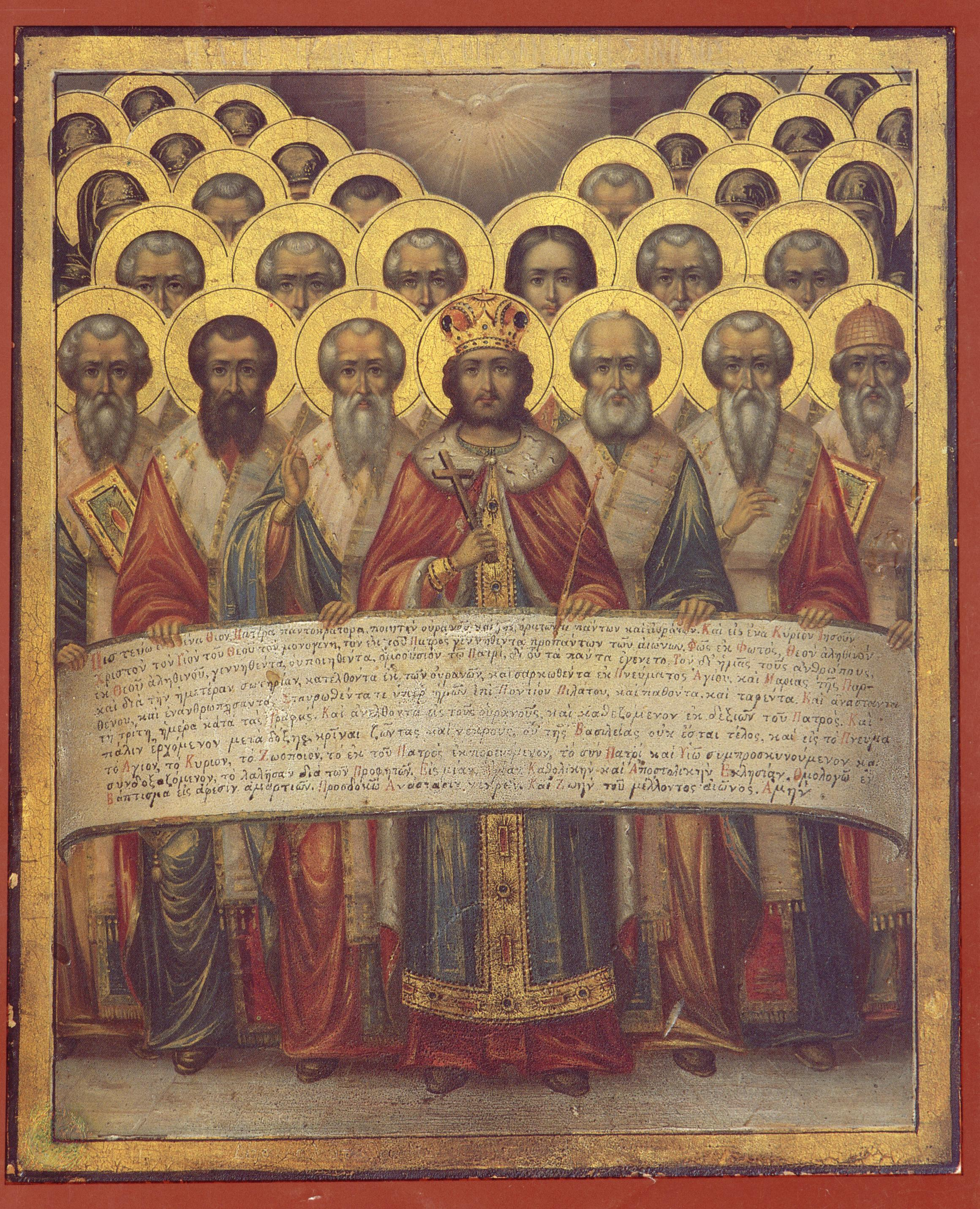 First Nicea Council Icon